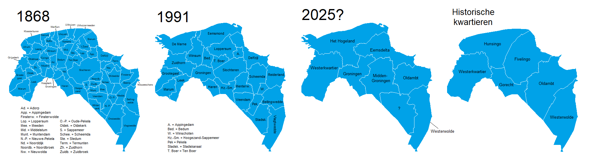 Development of municipal borders in the province of Groningen and the borders of the former districts (Ommelanden) as a comparison.